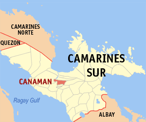 Map of Camarines Sur showing the location of Canaman